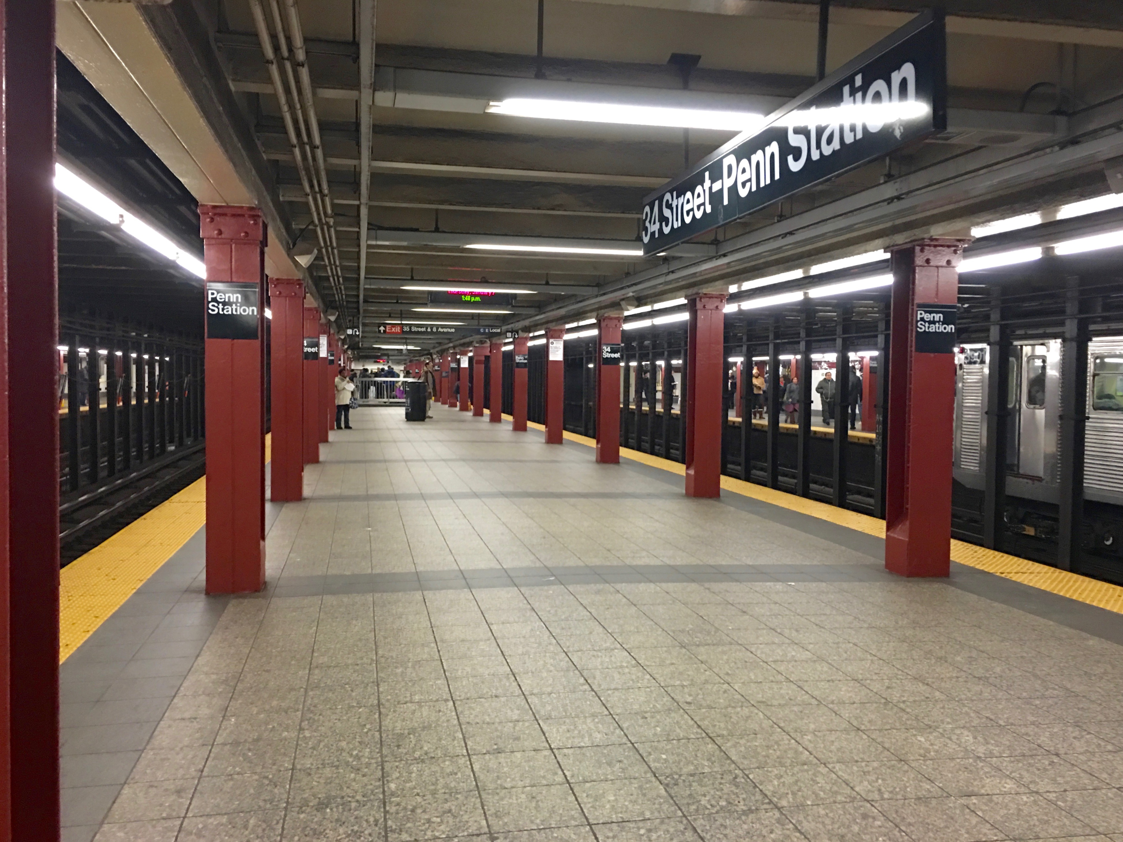 Middle express platform at 34th Street - Penn Station on the A/C/E.